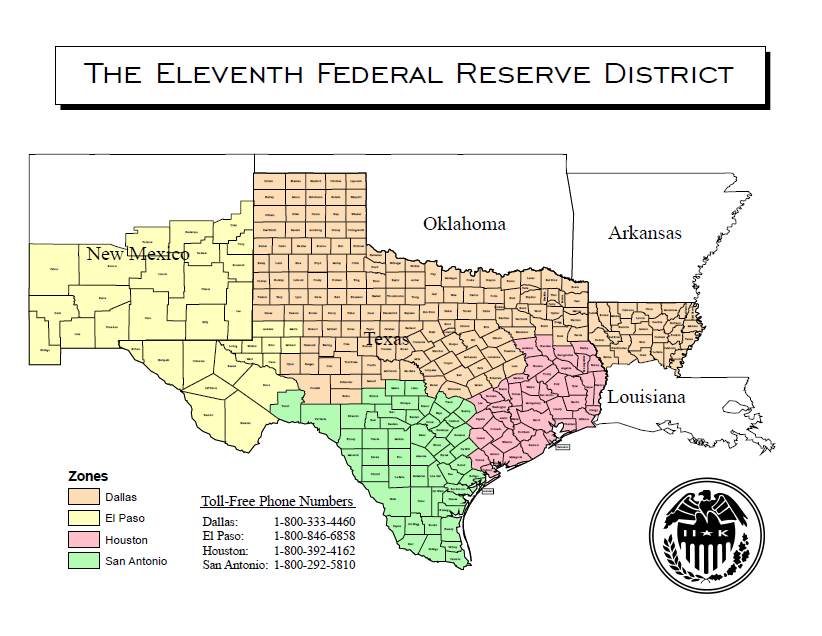 Map of the Eleventh District of the Federal Reserve System